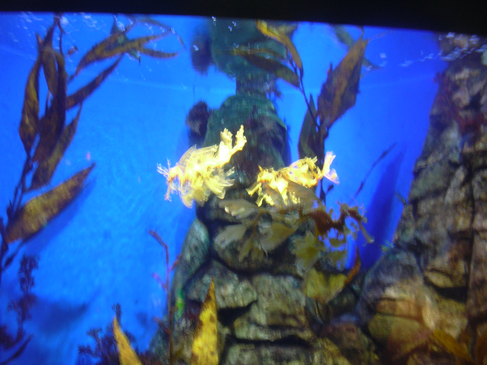 AQWA, Perth, sea dragons (South Coast)